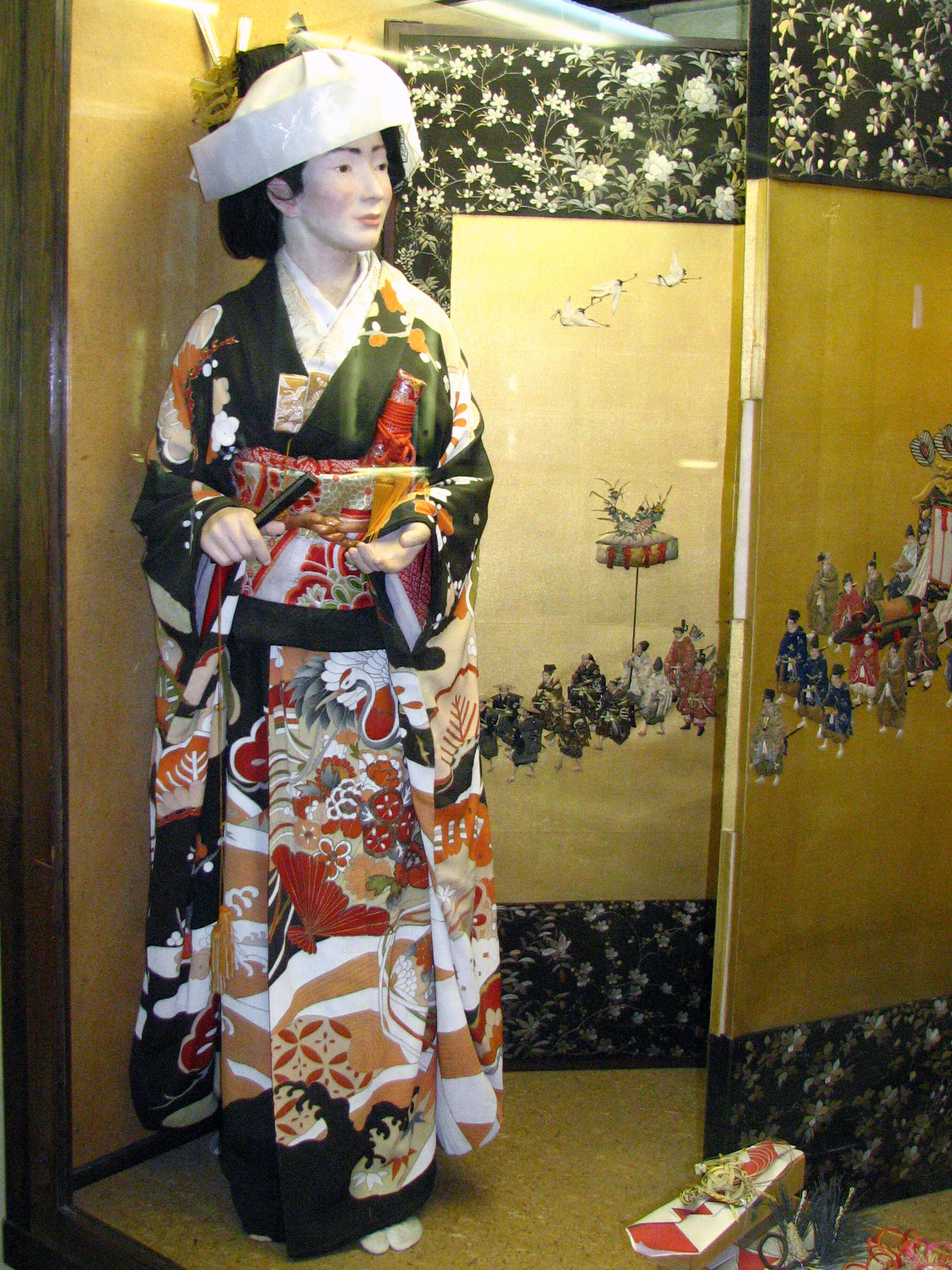 Saint Petersburg. Kunstkamera. Hall of Japan. Female kimono.